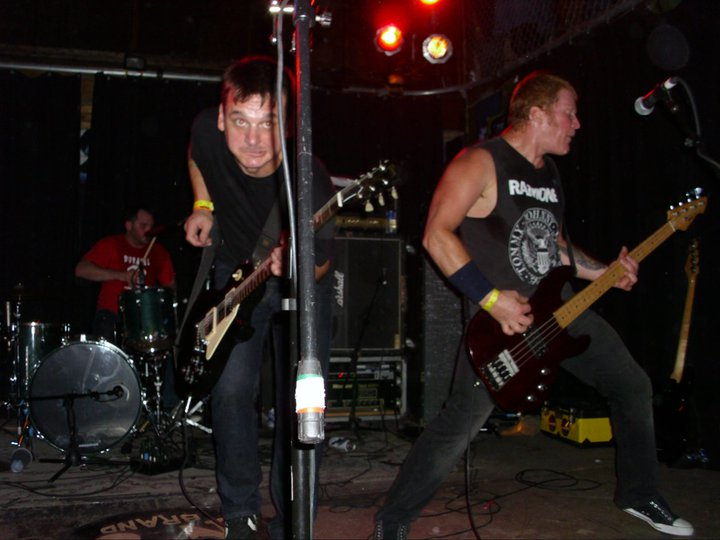 Performing live at Reggie's Rock Club, Chicago, IL